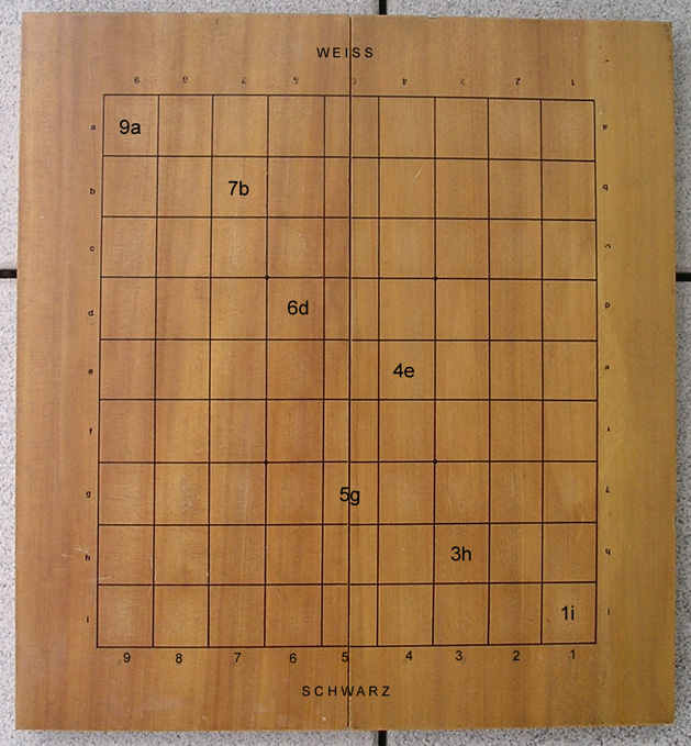 shogi board with field description